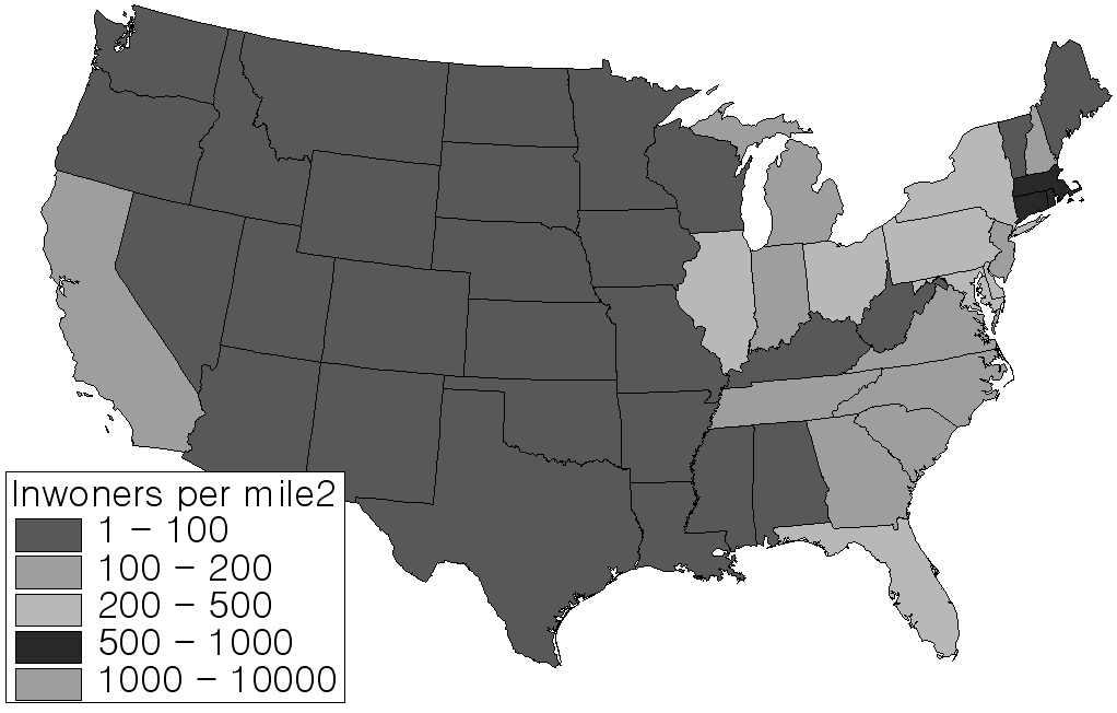 Map showing number of inhabitants per square mile in the United States. A faulty visual ordering of grey scales has been used intentionally.